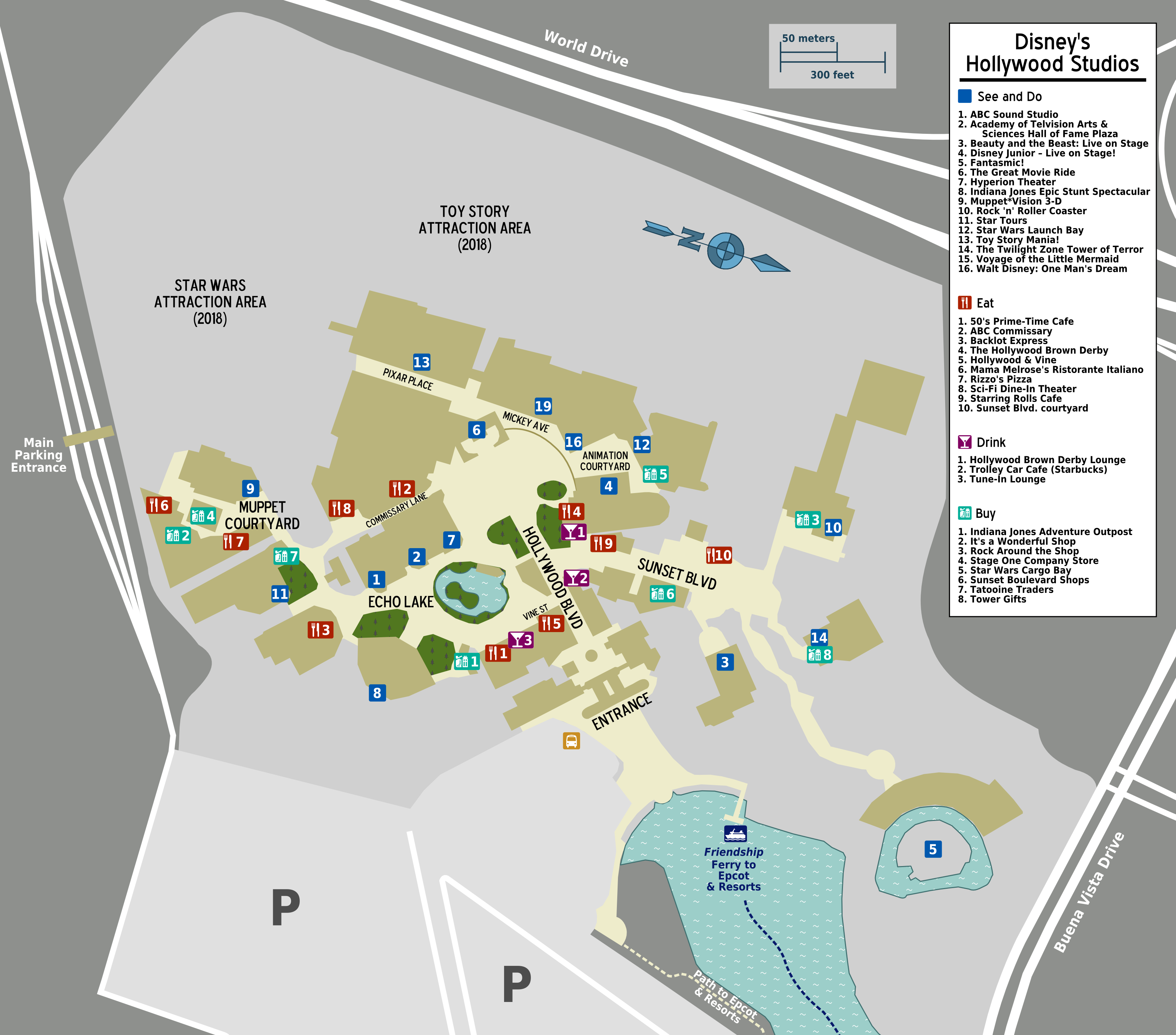 Disney's Hollywood Studios. Map of Disney's Hollywood Studios at Walt Disney World in Florida., Lake Buena Vista Map of: Florida¤